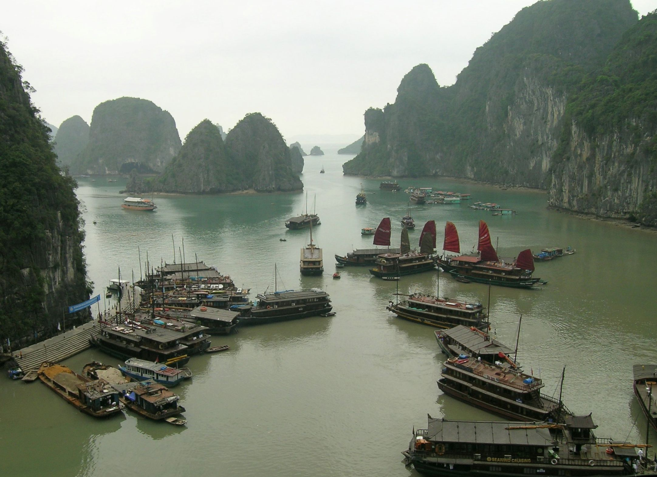 Halong Bay, Vietnam